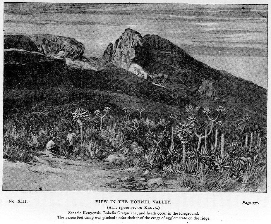 Sketch by Gregory from his expedition to East Africa in 1892-3. This shows a "View in the Höhnel Valley"